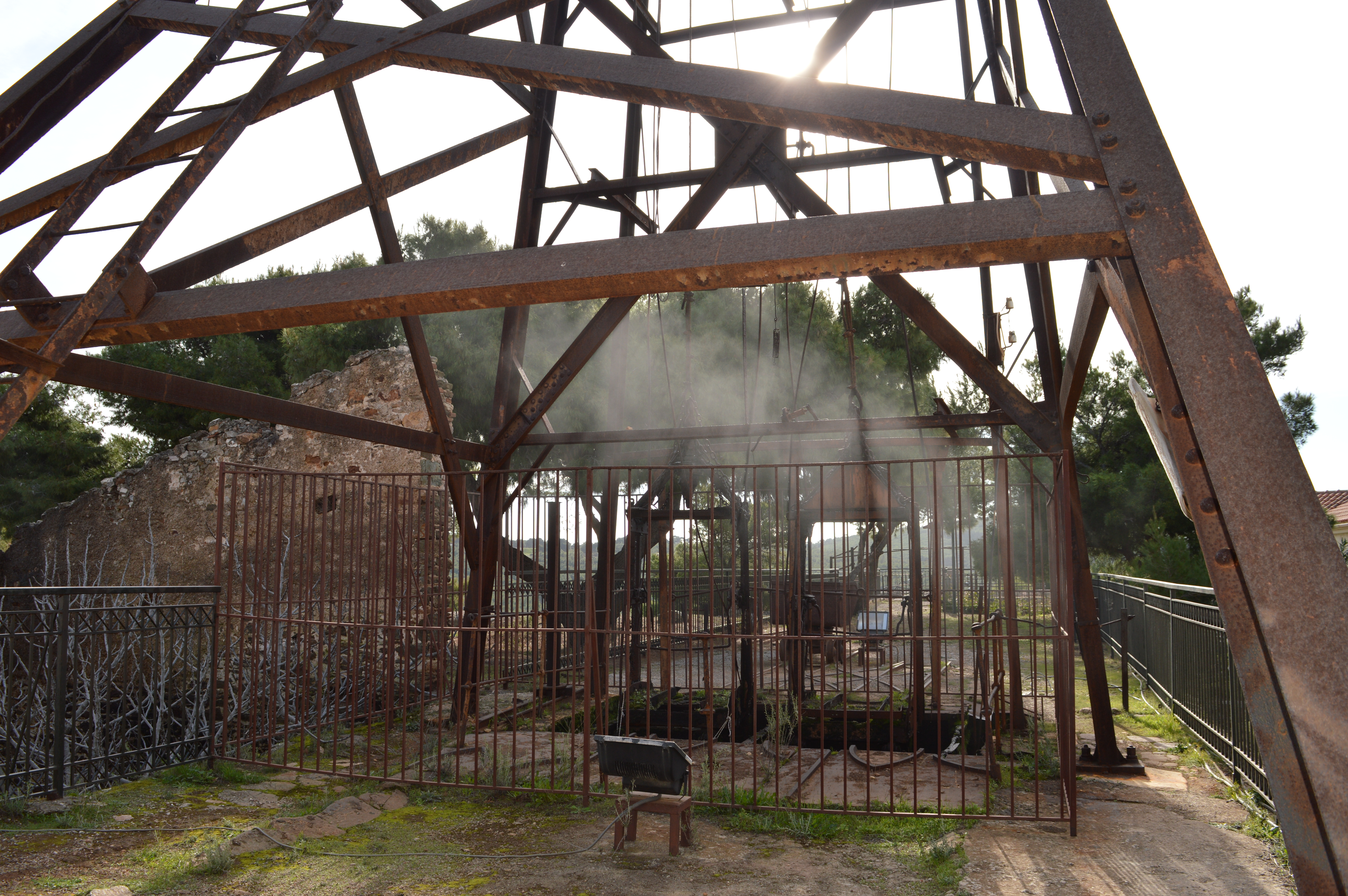 Frear "serpieri", Lavrion, Attica, Greece